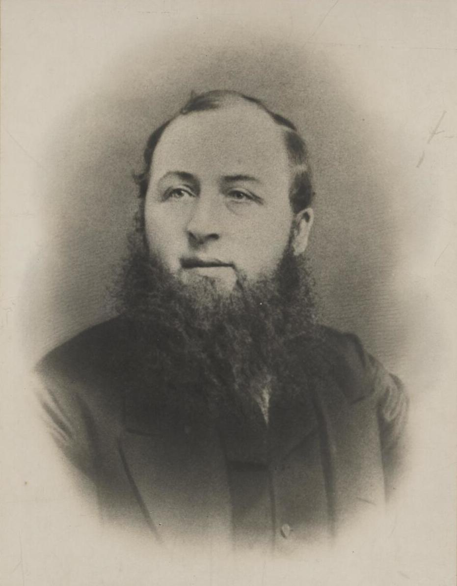 A portrait from the Welsh Portrait Collection at the National Library of Wales. Depicted person: John Ceiriog Hughes – Welsh poet